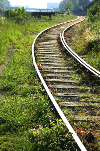 Harbour railway track beside the Avon New Cut, Bristol.